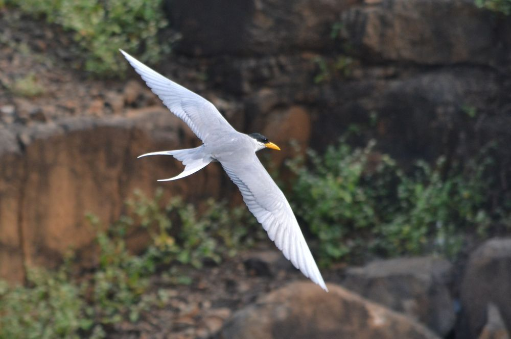 Indian River Tern